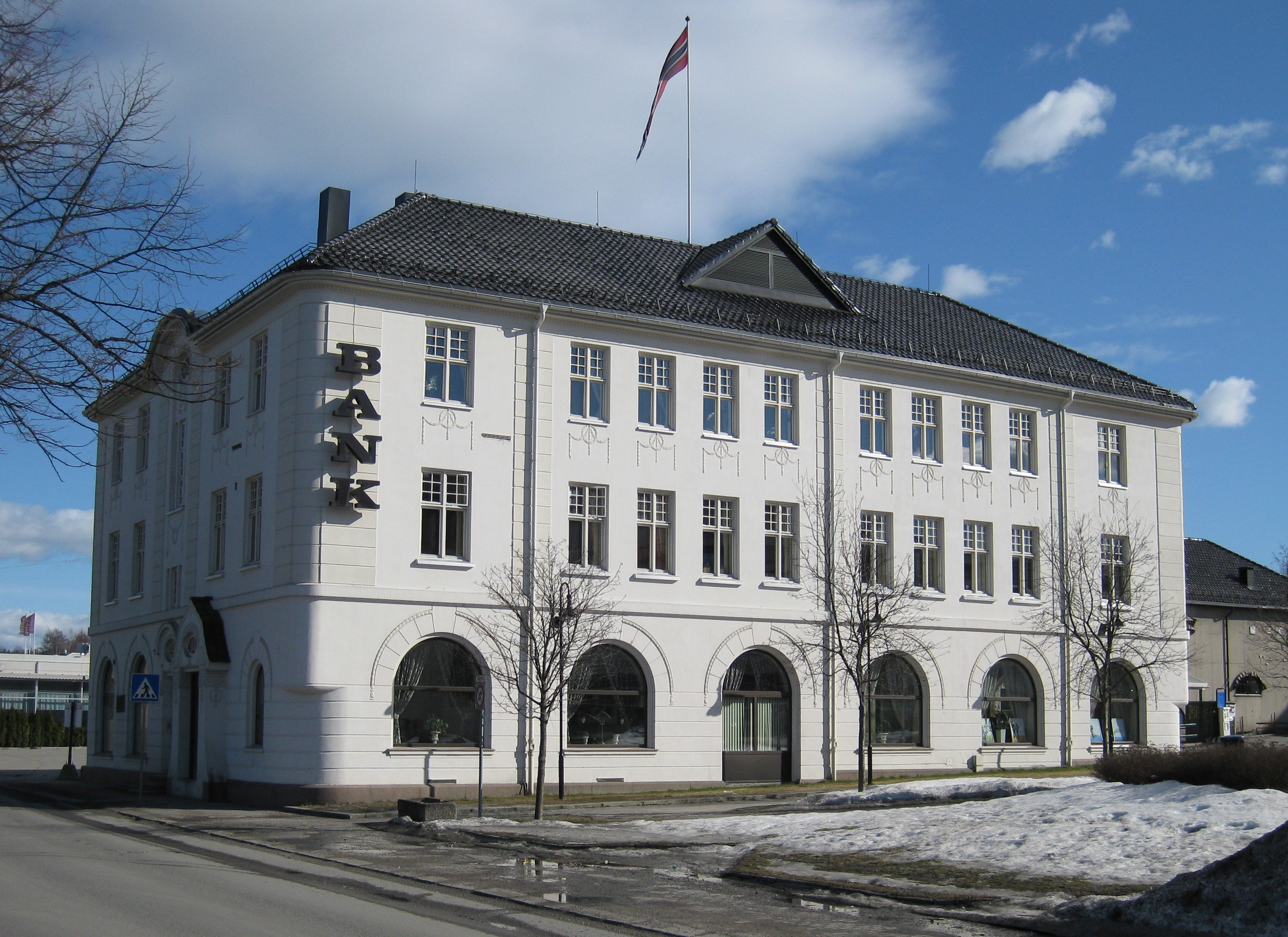 Vinger savings bank in Kongsvinger, Norway